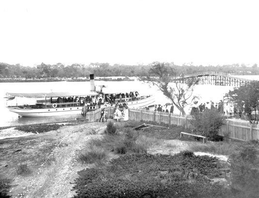 Western Australia. Passengers leaving the Silver Star river steamer ferry at Coffee Point, Applecross with the old Canning Bridge in background. Looking South-East.